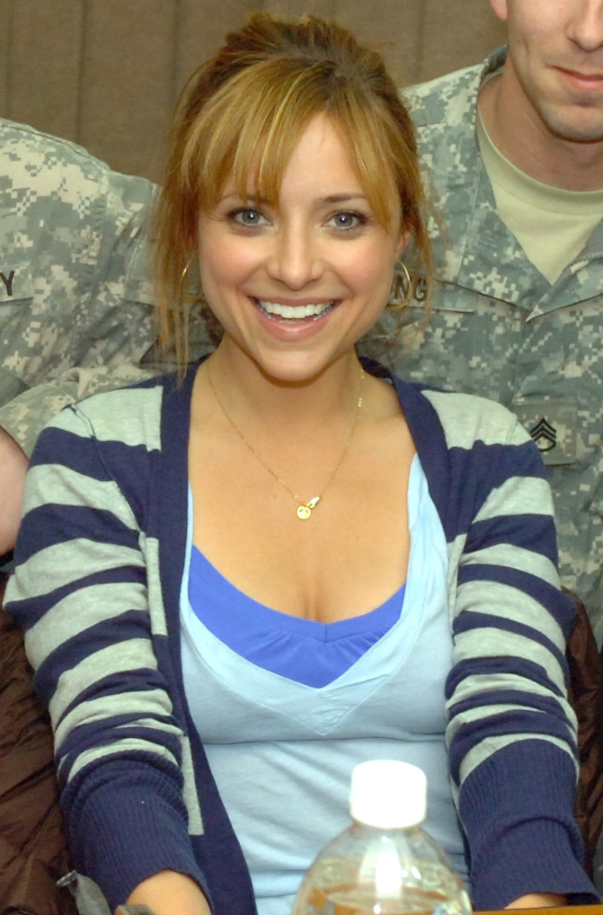 Combat Medics, Spc. Kevin S. Dorrell, a Phoenix native with Headquarters and Headquarters Company, 227th Infantry Battalion, 25th Infantry Division (left), and Staff Sgt. Nickolaus Long, a Sayre, Okla. Native with HHC, 227th Inf. Btn., 25th ID (right), pose for a personal photograph with DeAnna Pappas (left), Christine Lakin (center) and Rachel Smith (right) of the USO's Ambassadors of Hollywood Tour, at Contingency Operating Base Speicher, near Tikrit, Iraq, Jan. 10. The USO's storied tradition of bringing Hollywood stars to meet deployed military personnel continues worldwide with performances and special shows in the combat theater.